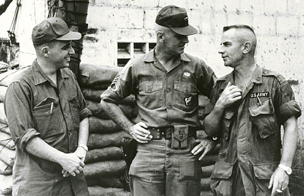 Charles Moskos sociology professor (left) chats with Army Staff Sgt. Donald Pratt (center) and an unidentified ssoldier during a 1967 trip to Vietnam. Photo courtesy Charles C. Moskos.